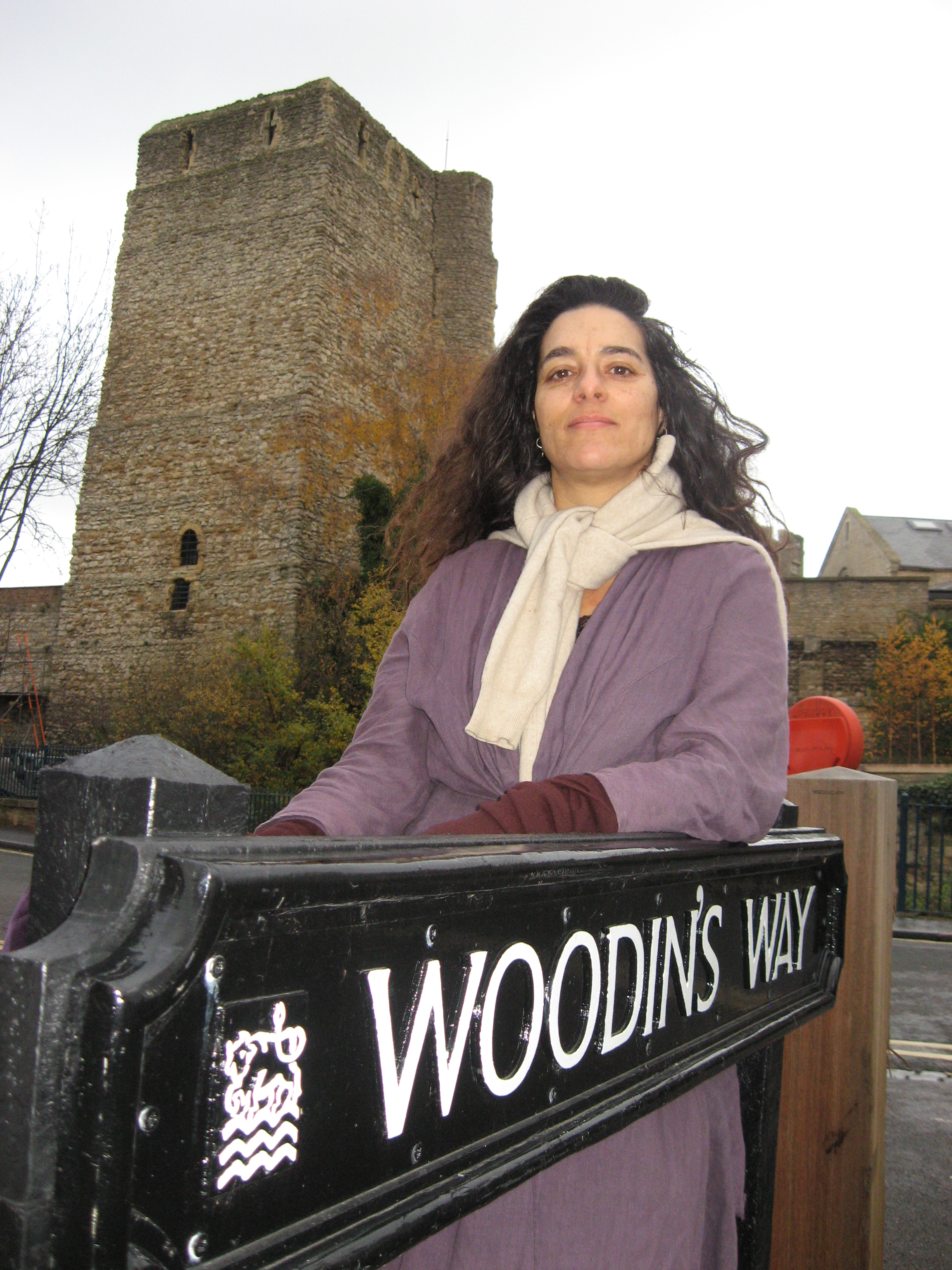 Councillor Sushila Dhall (Oxfordshire Green Party) of Oxford City Council and Oxfordshire County Council in Woodin’s Way (in Oxford, England), named after the late Cllr Dr Mike Woodin, also a Green councillor. St George's Tower of Oxford Castle is in the background.